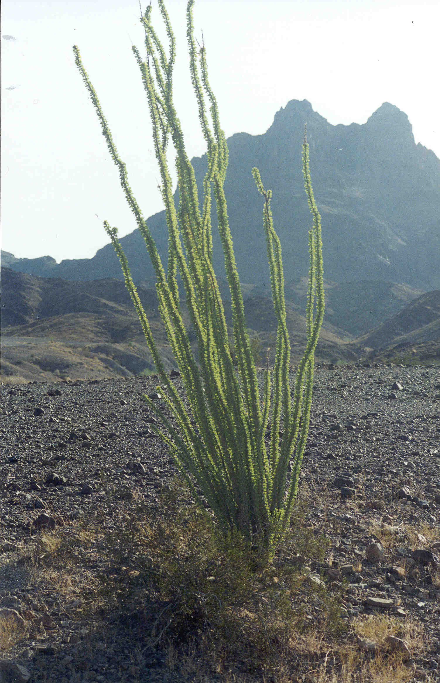 Description : A lone ocotillo with Muggins Peak in the background. Filename : yfomugginspeak.jpg